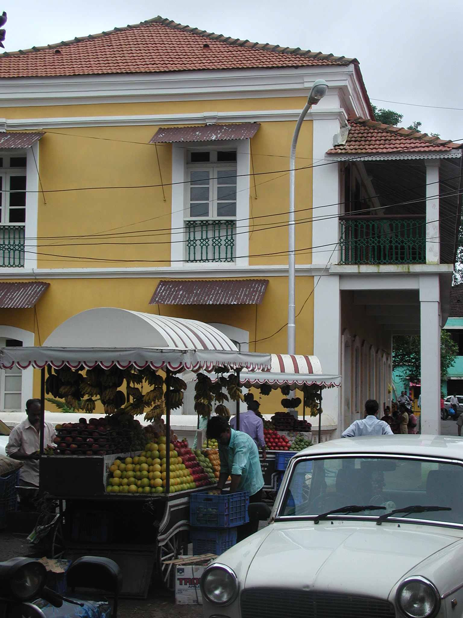 Old Pourtuguese House in Panaji, Capital of State Goa, India